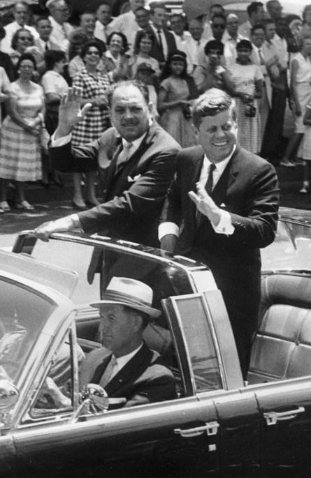 Motorcade for President Mohammad Ayub Khan of Pakistan. In open car (Lincoln-Mercury Continental with bubble top): Secret Service agent William Greer (driving); Military Aide to the President General Chester V. Clifton (front seat, center); Secret Service Agent Gerald “Jerry” Behn (front seat, right; partially hidden); President Mohammad Ayub Khan (standing); President John F. Kennedy (standing). Crowd watching. 14th Street, Washington, D.C.